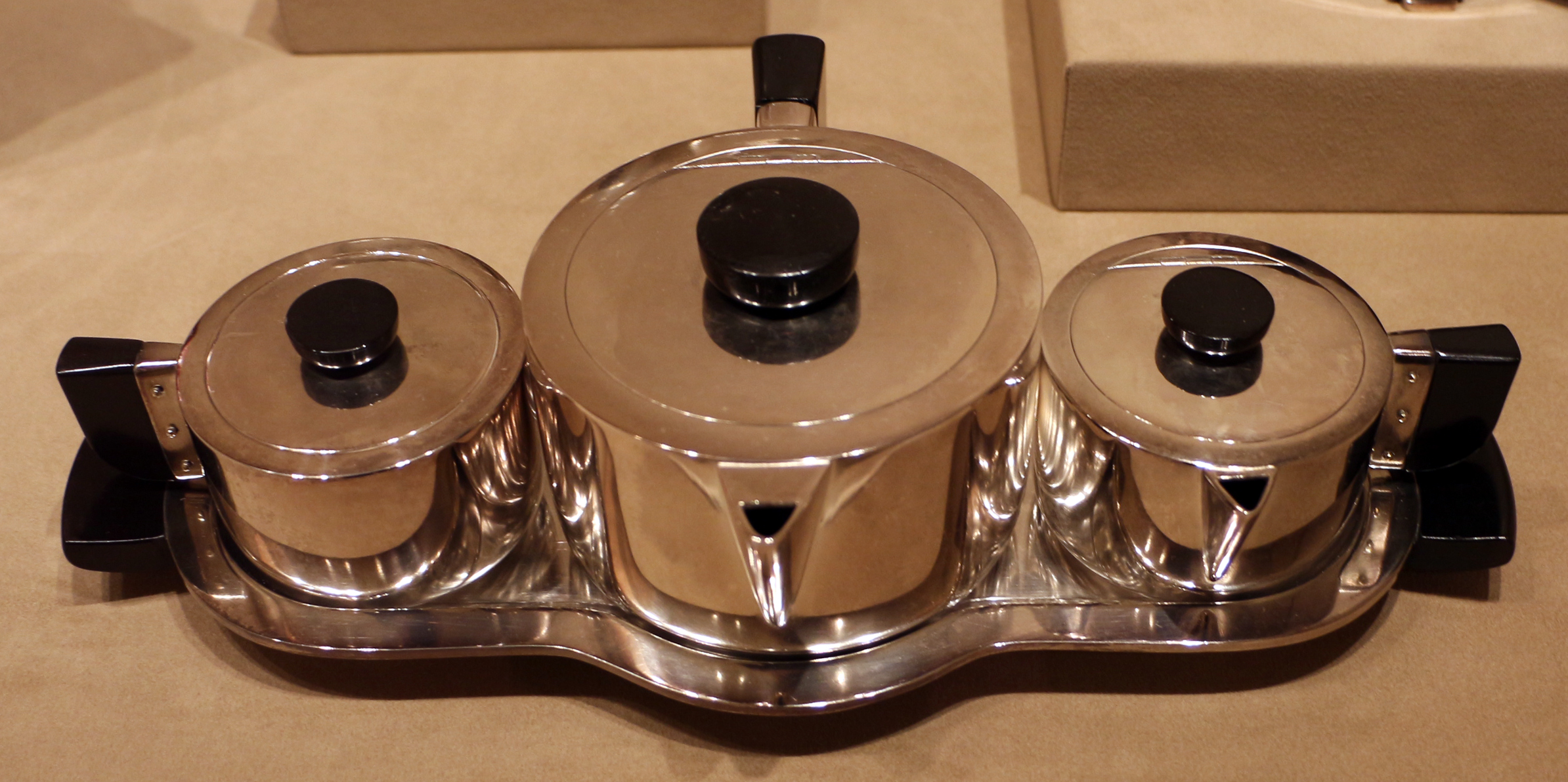 Metalware in the Indianapolis Museum of Art